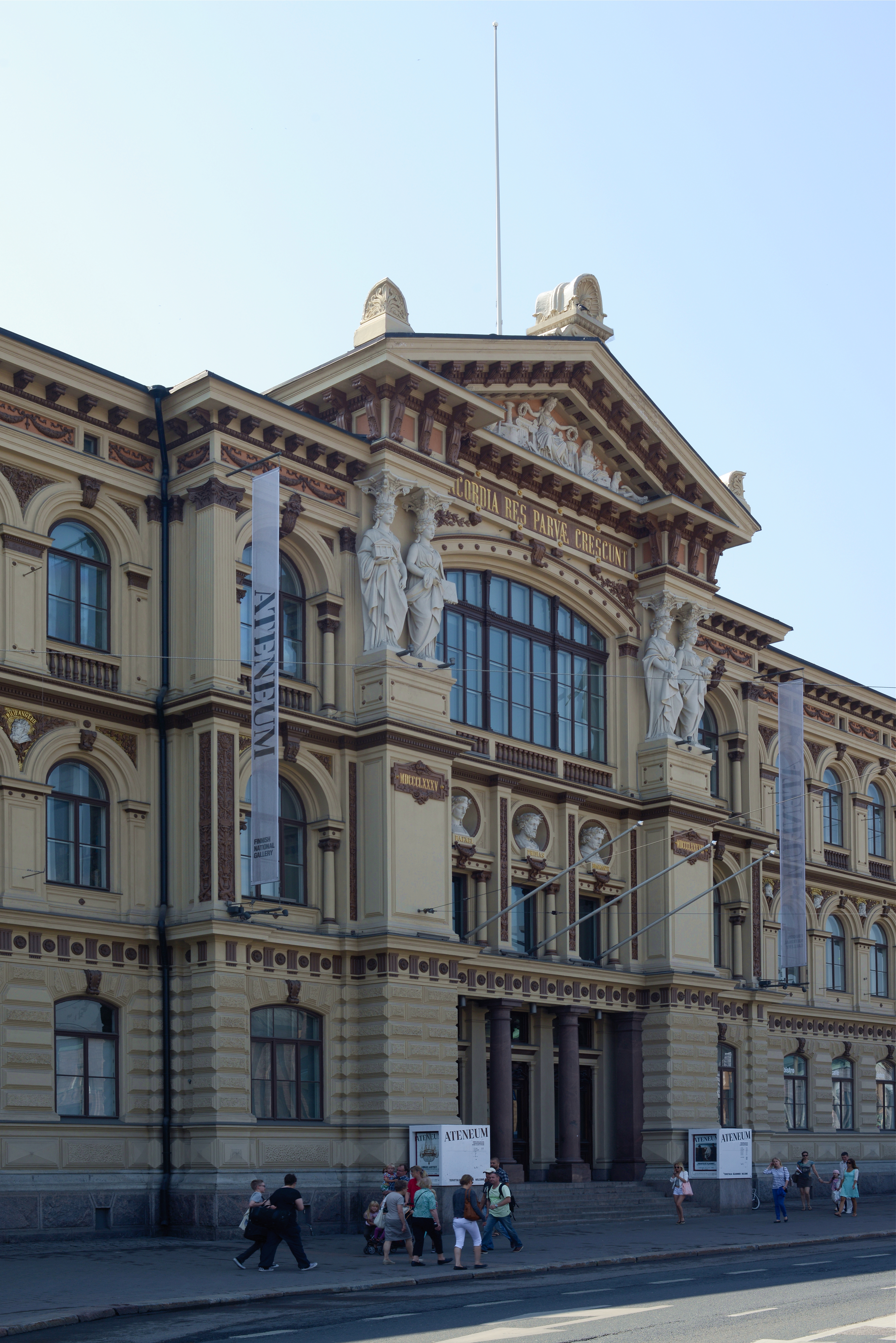 The Ateneum in Helsinki. Detail of the main facade